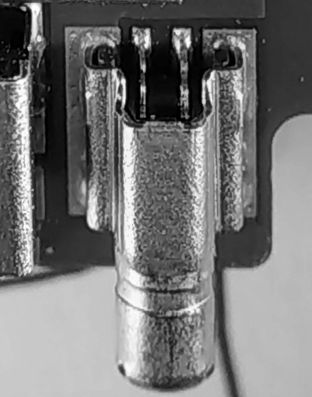 TS-9 socket back